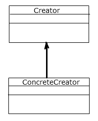 Creational patterns simple diagram